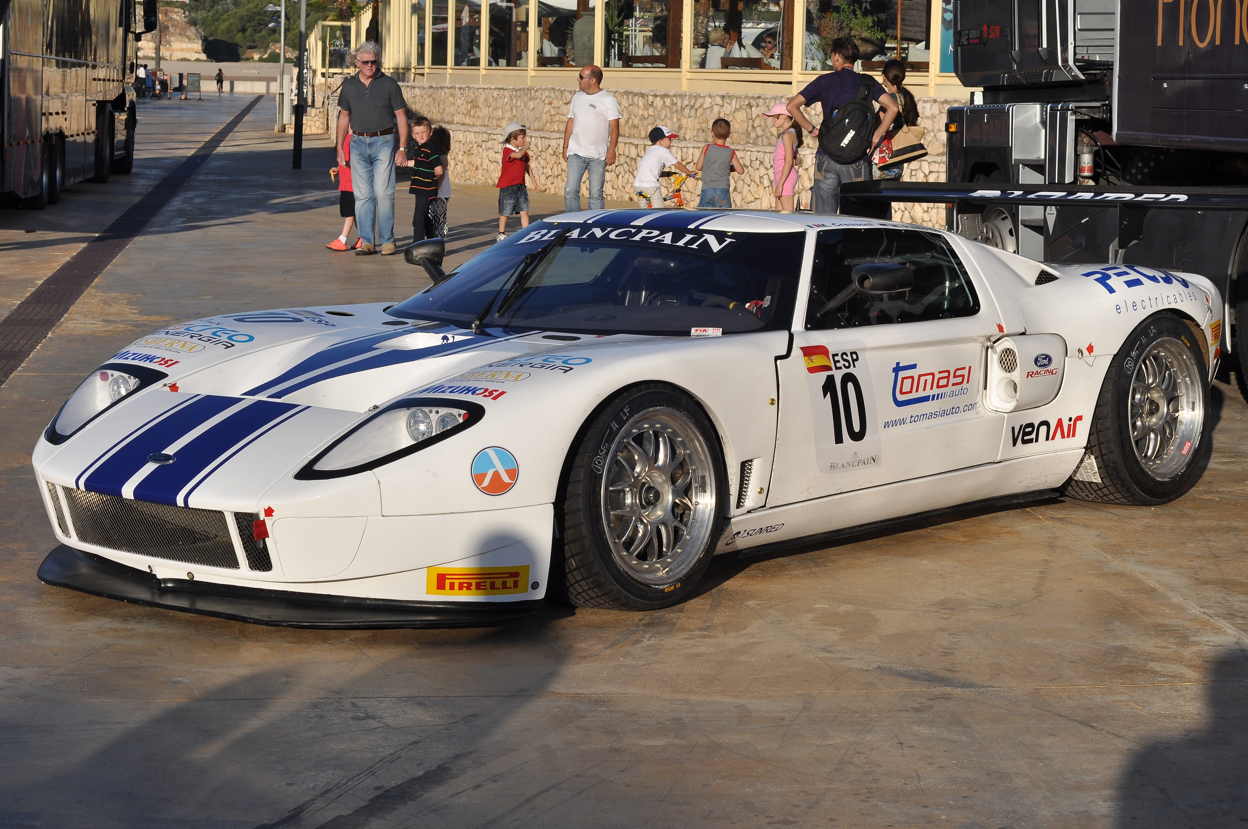 Ford GT, FIA GT1